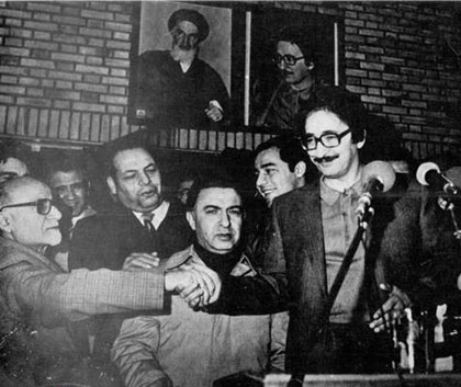 from right to left : Abulhassan Banisadr , Ezzatollah Sahabi and Mehdi bazargan